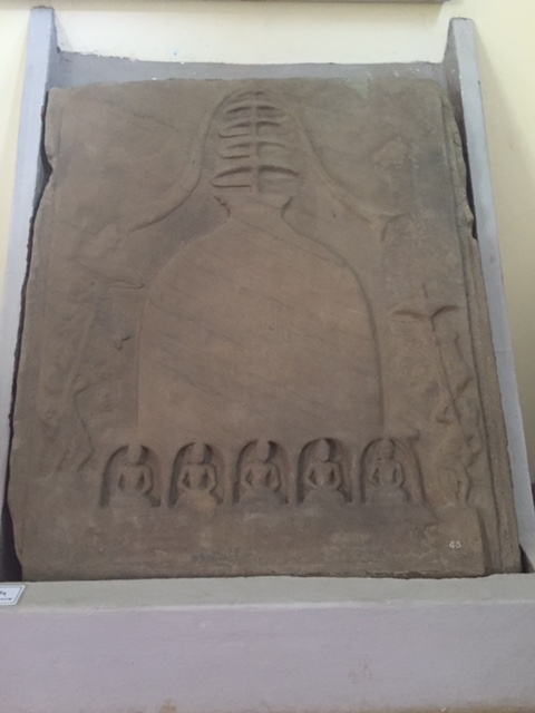 Stone bas-relief of stupa, sandstone, Pyu period, found in the Khin Ba mound, Sri Ksetra.